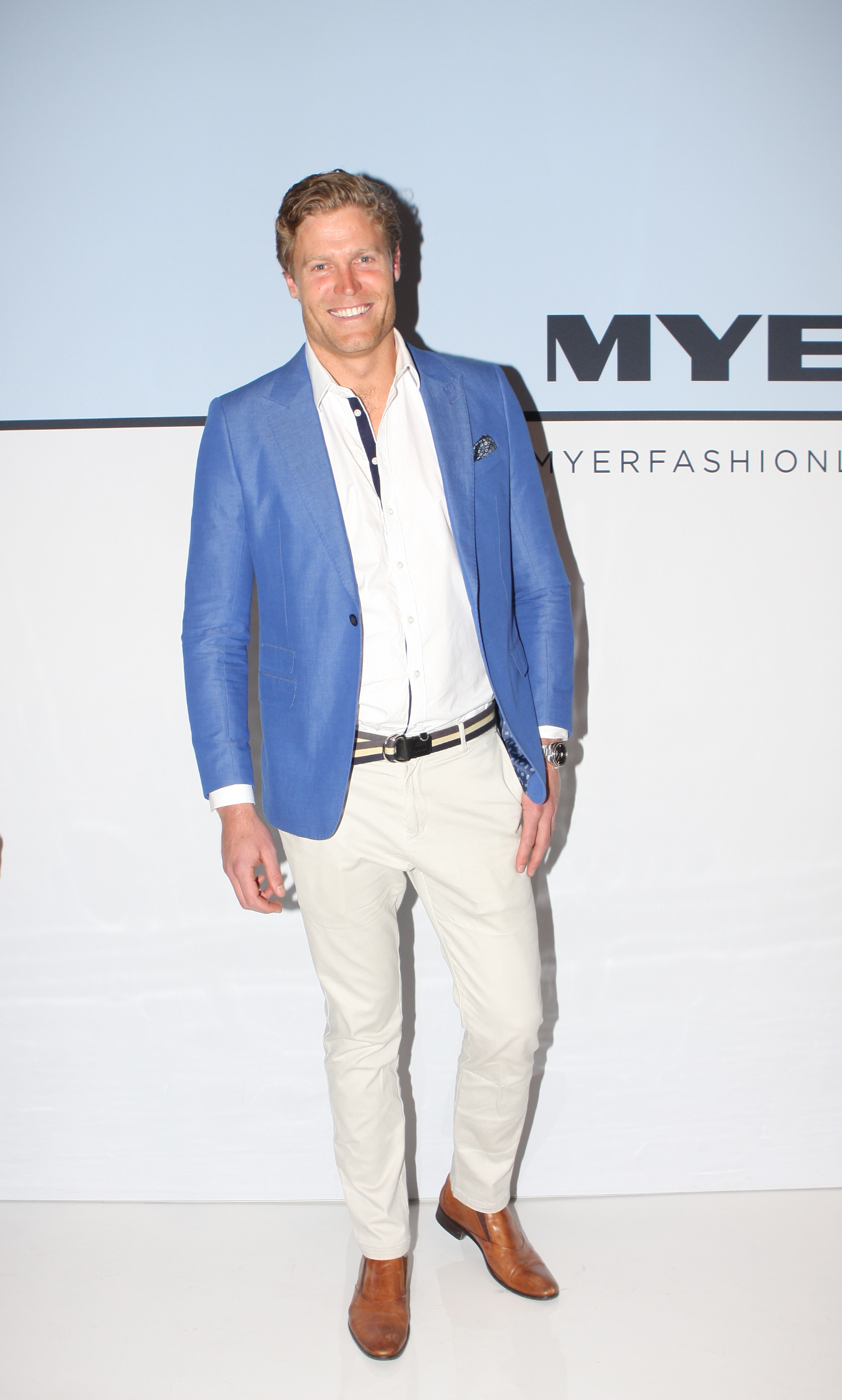 Dr. Chris Brown at Myer Fashion Spring Launch 2015 Red Carpet